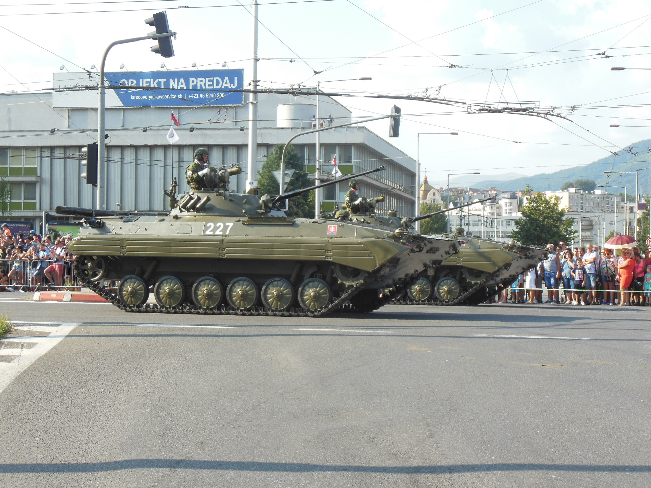 75th Anniversary of the Slovak National Uprising Celebrations in Banská Bystrica, Slovakia. Military parade on Štefánikovo nábrežie.